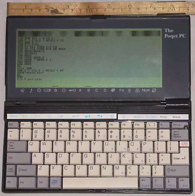 Poqet PC and metric/inch scale. Taken by me, John Bäckstrand with my powershot G1 2002-11-21.